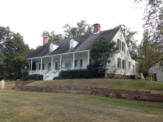 A recent image of the Selma Plantation home.